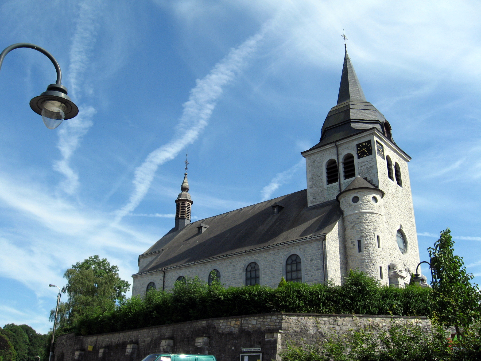 Church of Saint Hubert in Lontzen, Liège, Belgium